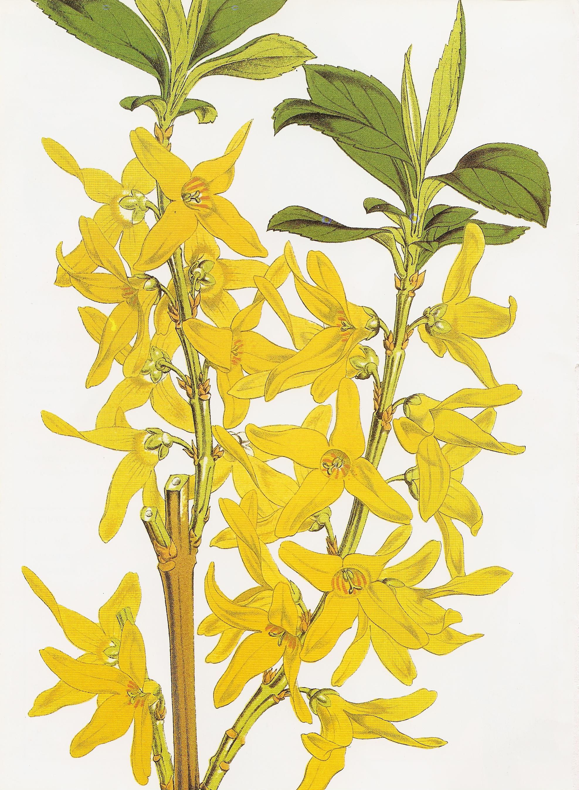 Forsythia viridissima, an unsigned chromolithograph from the second volume of Jardin Fleuriste (1851-1852) by Charles Lemaire, whose principal artist was Jean-Christophe Heyland (1792-1866). This plant was named and described by John Lindley in 1847.